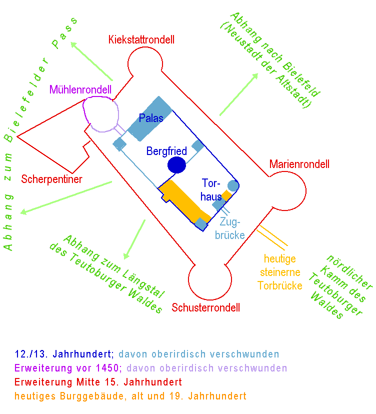 Stages of construction of Sparrenburg castle in Bielefeld